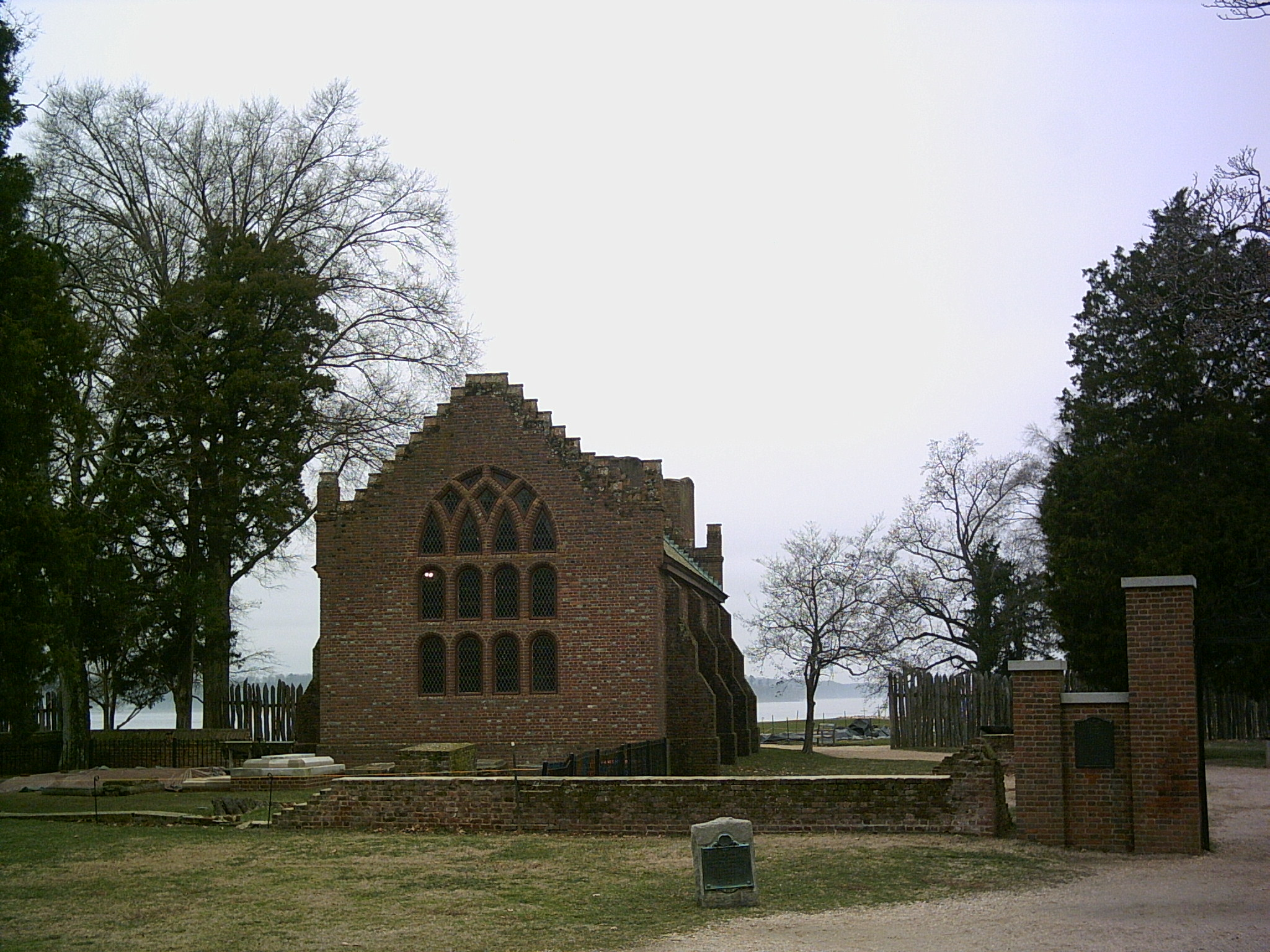 Image taken by my mother, who has released copyright so that it may be uploaded